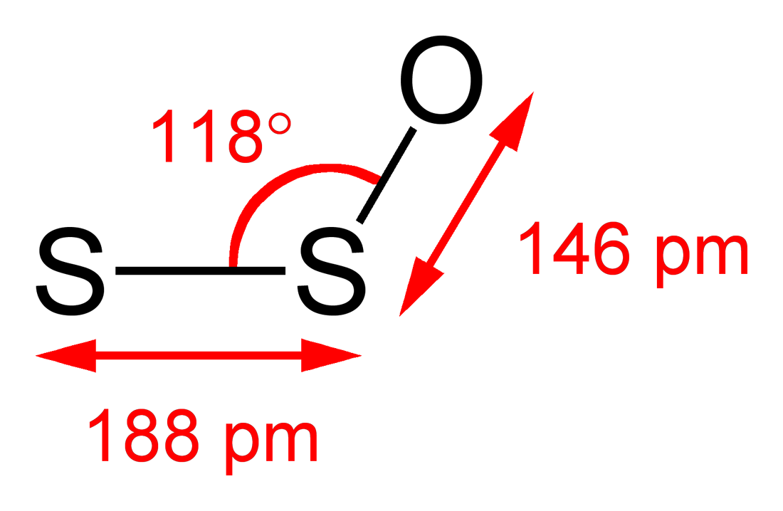 Dimensions of the disulfur monoxide molecule, S2O, in the gas phase. Data from E. Tiemann, J. Hoeft, F. J. Lovas and D. R. Johnson (1974). "Spectroscopic studies of the SO2 discharge system. I. The microwave spectrum and structure of S2O". The Journal of Chemical Physics 60 (12): 5000-5004.